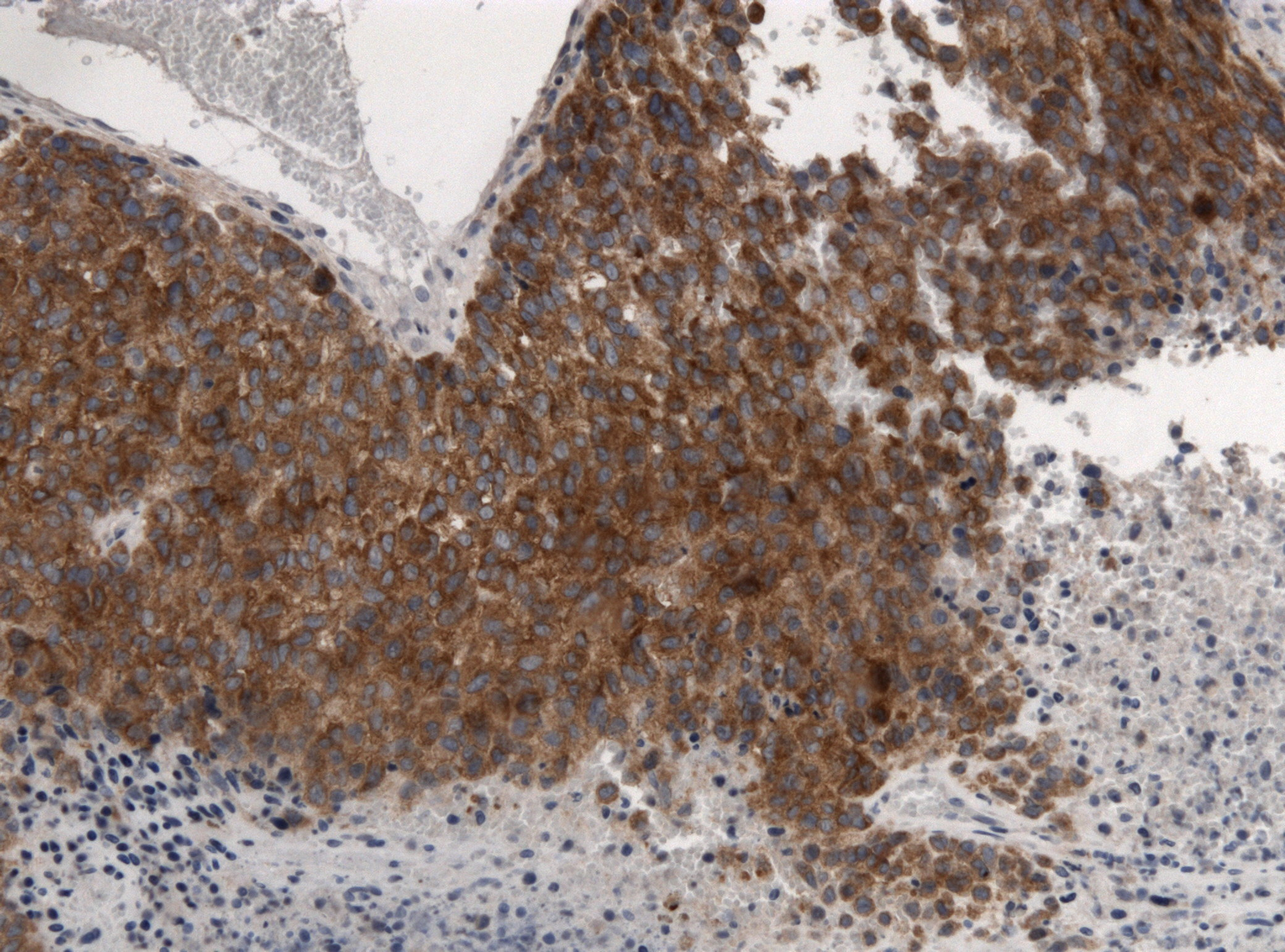 Immunohistochemistry staining of BRAF V600E mutant tumor cells (brown) in a brain metastasis of malignant melanoma.